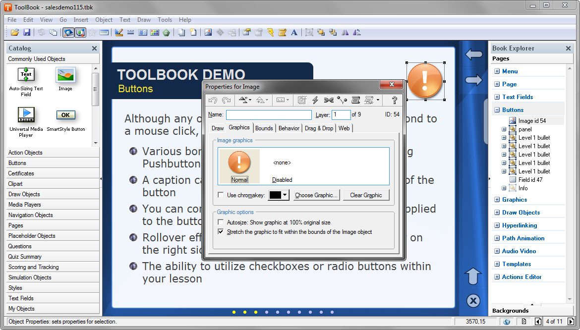 A screenshot of the ToolBook interface.